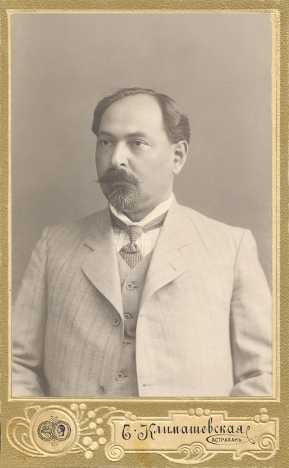 This photo of Nariman Narimanov was taken in Astrakhan by Klimashevskaya Photoshop in 1913. The same year it was gifted to Narimanov's friend Hussein Hayatov, and hold for about 100 years by Hayatov's family. In 2011, the photo was donated to Narimanov Museum in Baku.